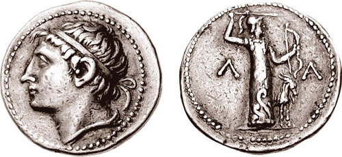 Sparta, Kleomenes III. 235-221 BC. Silver Tetradrachm (16.83 gm). 227-222 BC. Diademed head of Kleomenes left / ΛA(ΚΩΝΙΑ), statue of Artemis Ortheia right, brandishing spear overhead in right hand, and holding bow in left; at feet below, stag standing right.